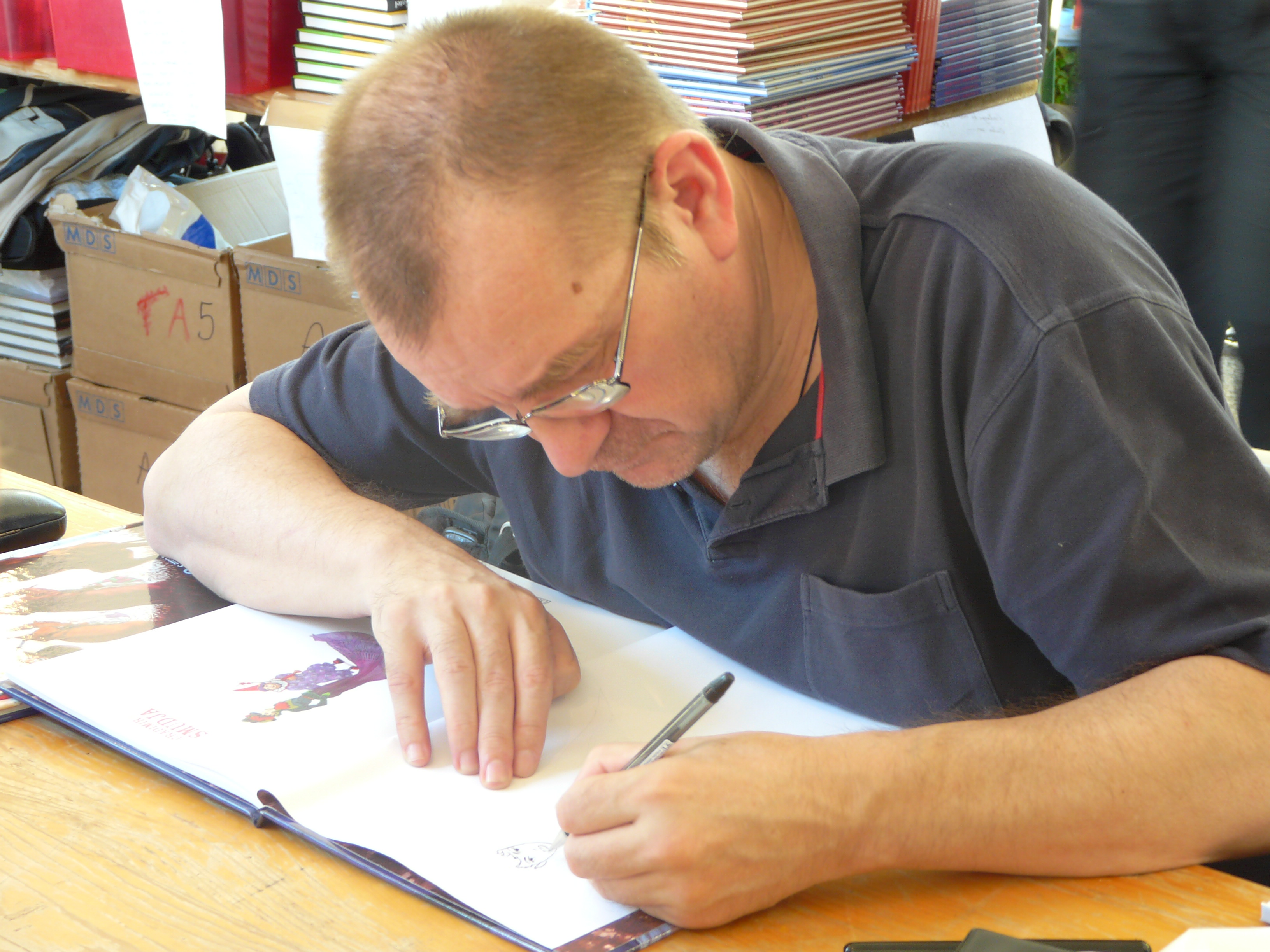 Photographs taken during the International Comic Festival of Sollies Ville, France